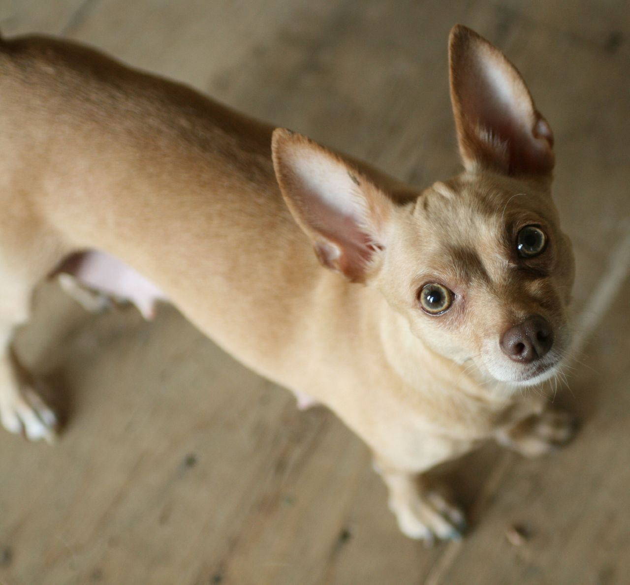 A green eyed beige female Chihuahua. Original description: Charl & I found this litte girl in our driveway this morning. Apparently she escaped from her house and ran up the street. She was on our porch for a mere hour before her owners found her. I miss her already....